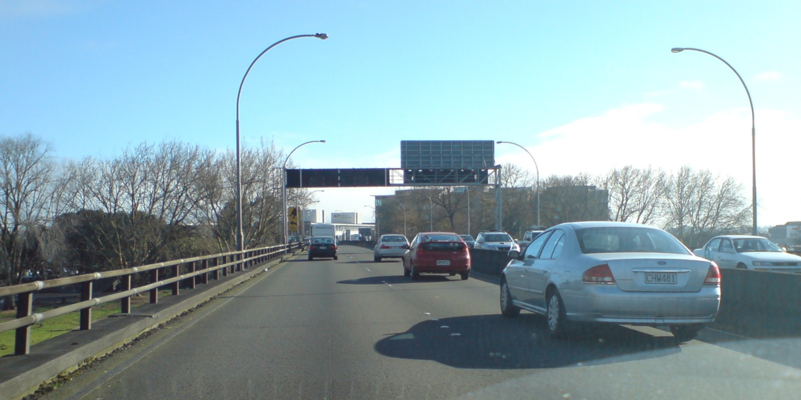 The Victoria Park Viaduct, Auckland City, New Zealand as seen from a moving car travelling north towards the Auckland Harbour Bridge. Parts of Victoria Park can be seen to the left.